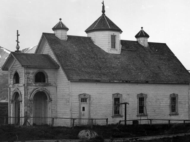 The Holy Resurrection Russian Orthodox Church, Belkofski, Alaska was dated around 1887 and was described as a "striking example of a special type of Russian Orthodox architectural heritage" due to the absence of onion or bulb-shaped elements which were a later style addition. Burned down in 2013.